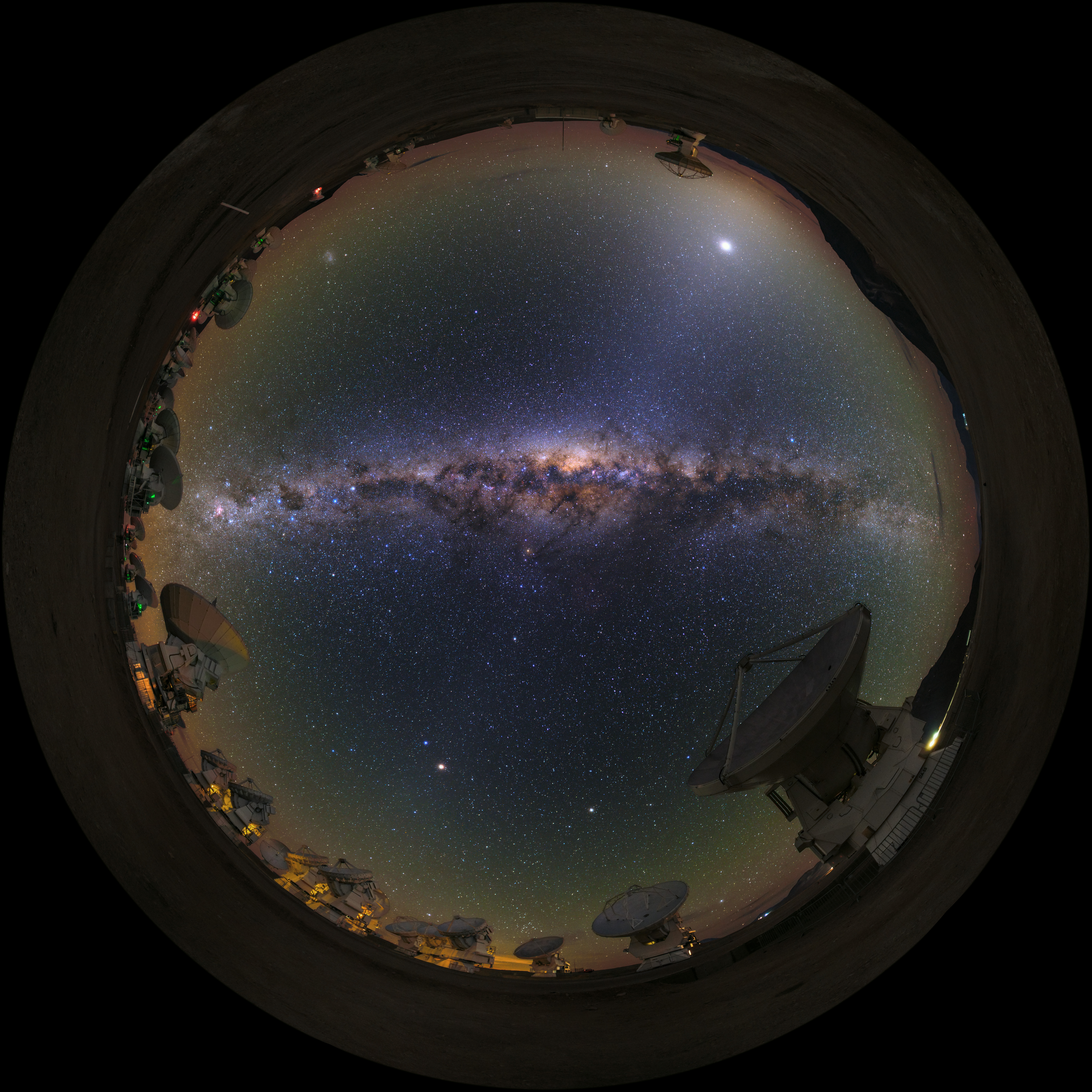 A UHD fish-eye/fulldome view of the Atacama Large Millimeter/submillimeter Array (ALMA). Overhead, the Milky Way shines brightly. Taken during the ESO Ultra HD Expedition. Credit: ESO/B. Tafreshi